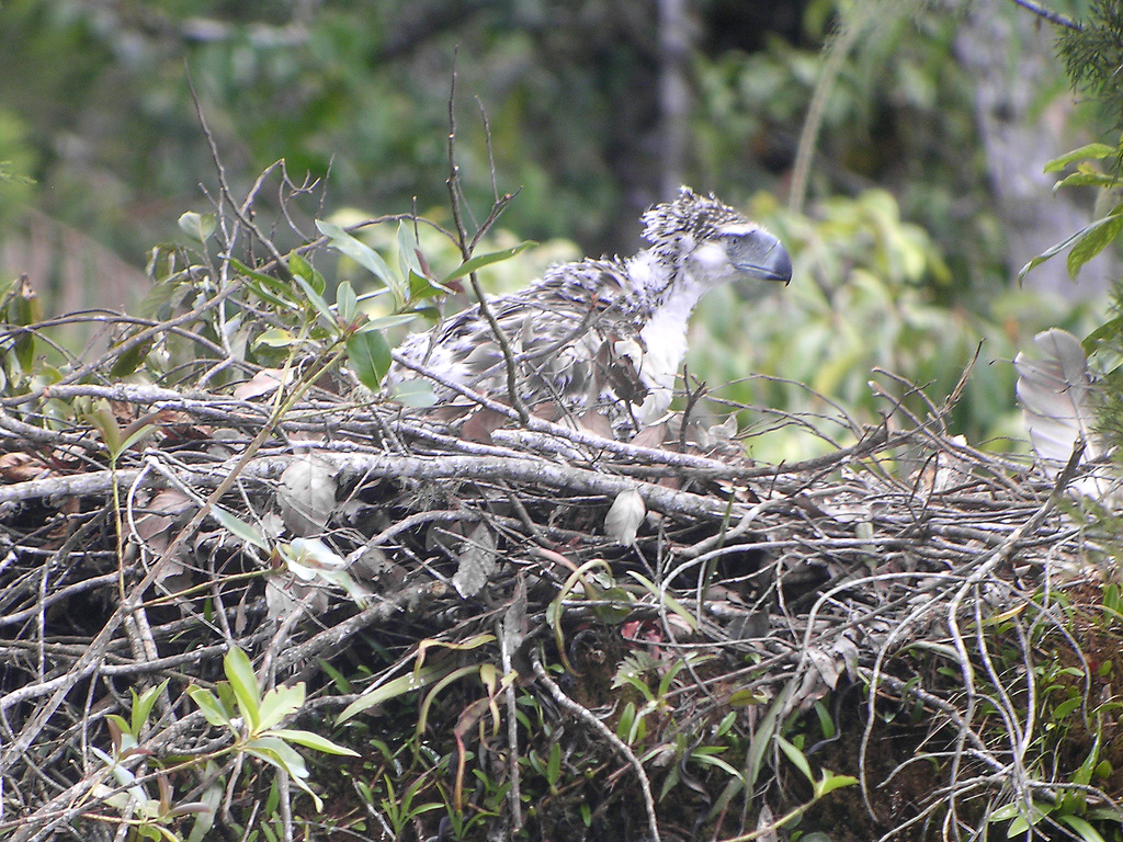 Philippine Eagle Pithecophaga jefferyi nestling